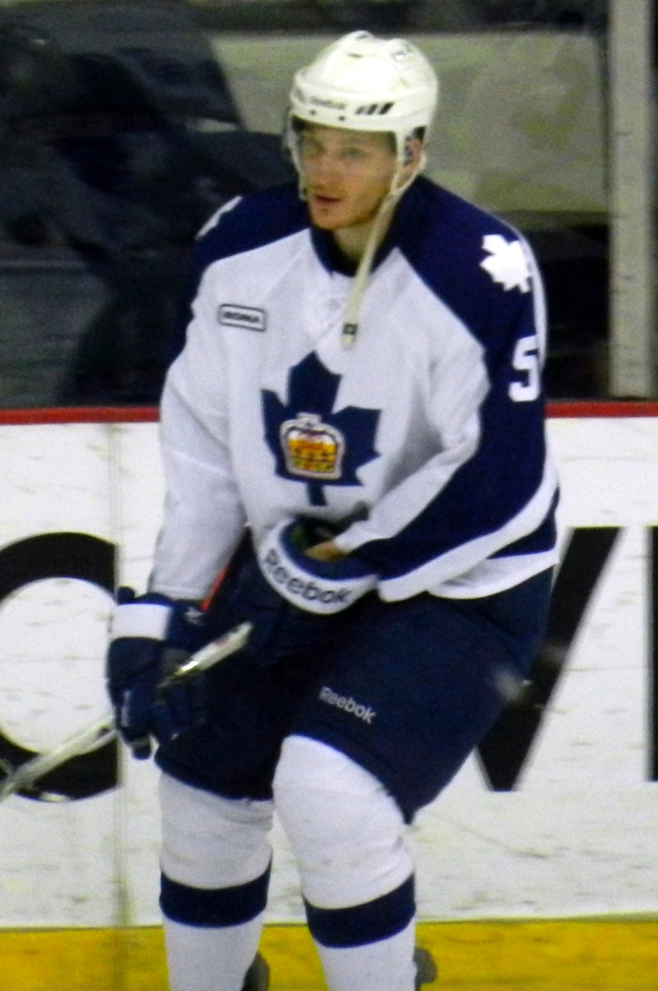 Korbinian Holzer playing for the American Hockey League's Toronto Marlies